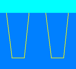 A repetitive dive profile